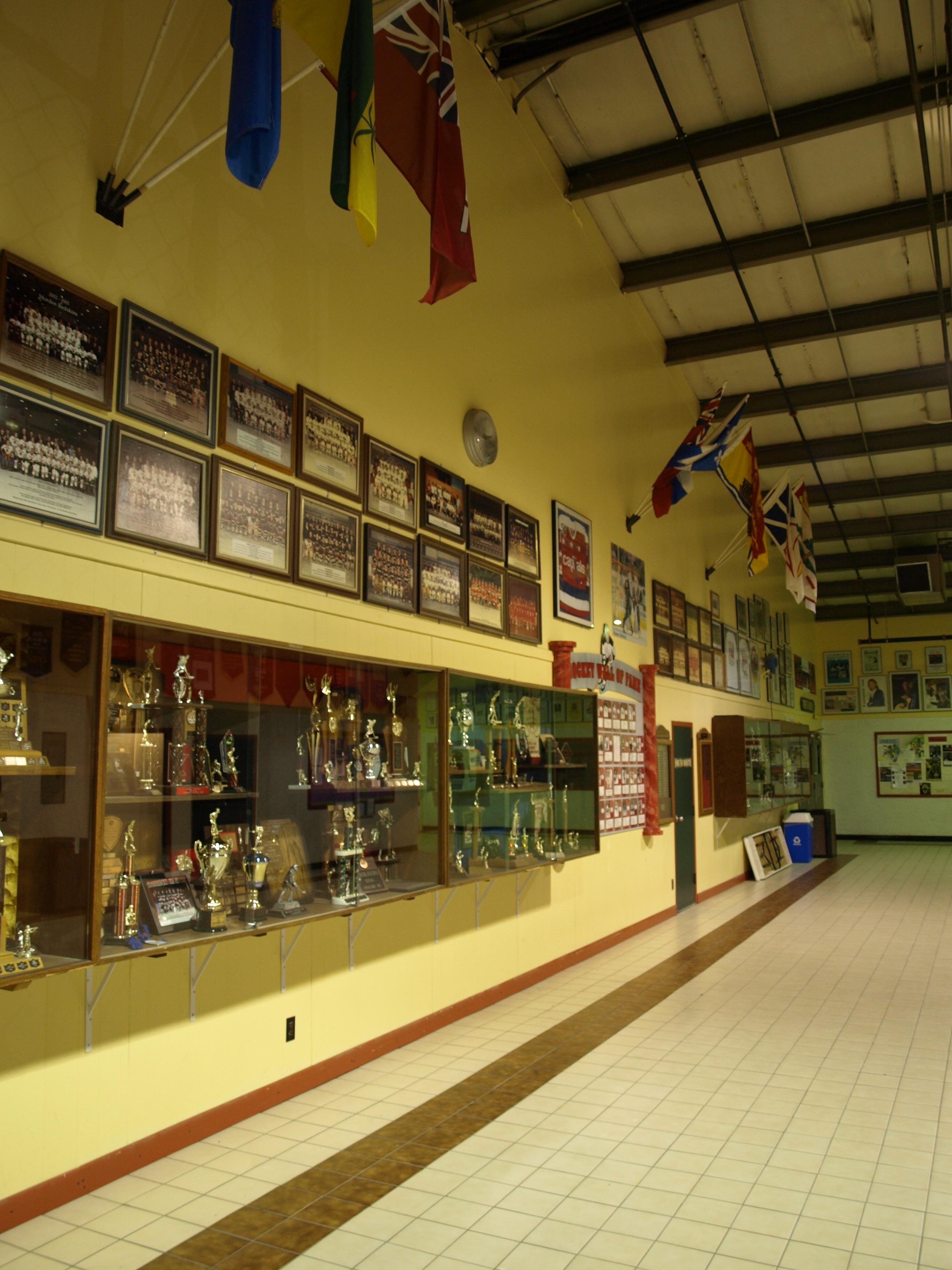 Manitoba Hockey hall of fame museum Morden Manitoba Canada